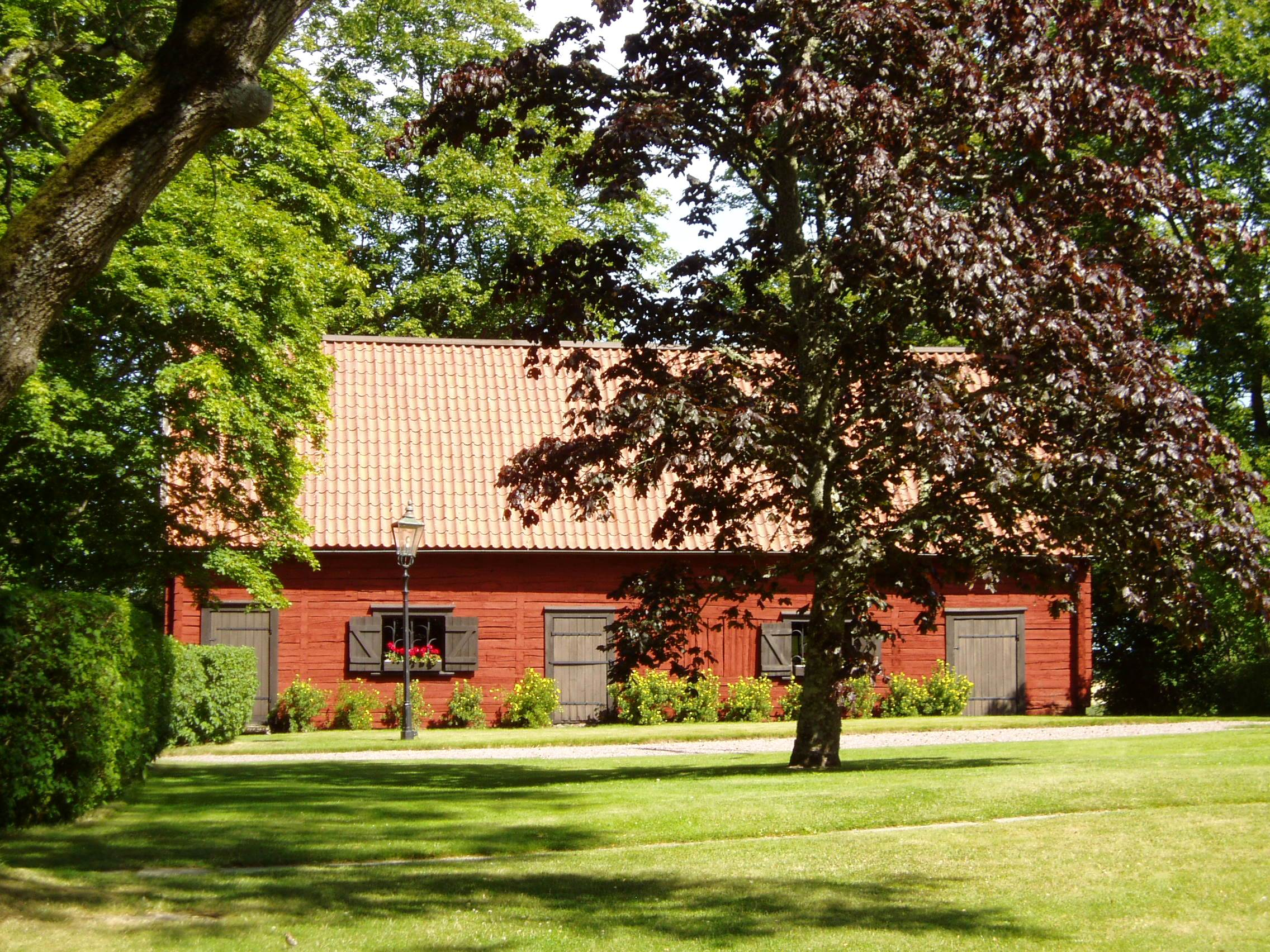 Ribbingstorp mansion, Vara Municipality, Sweden